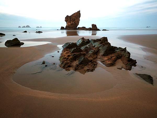 Cantábric Sea beach